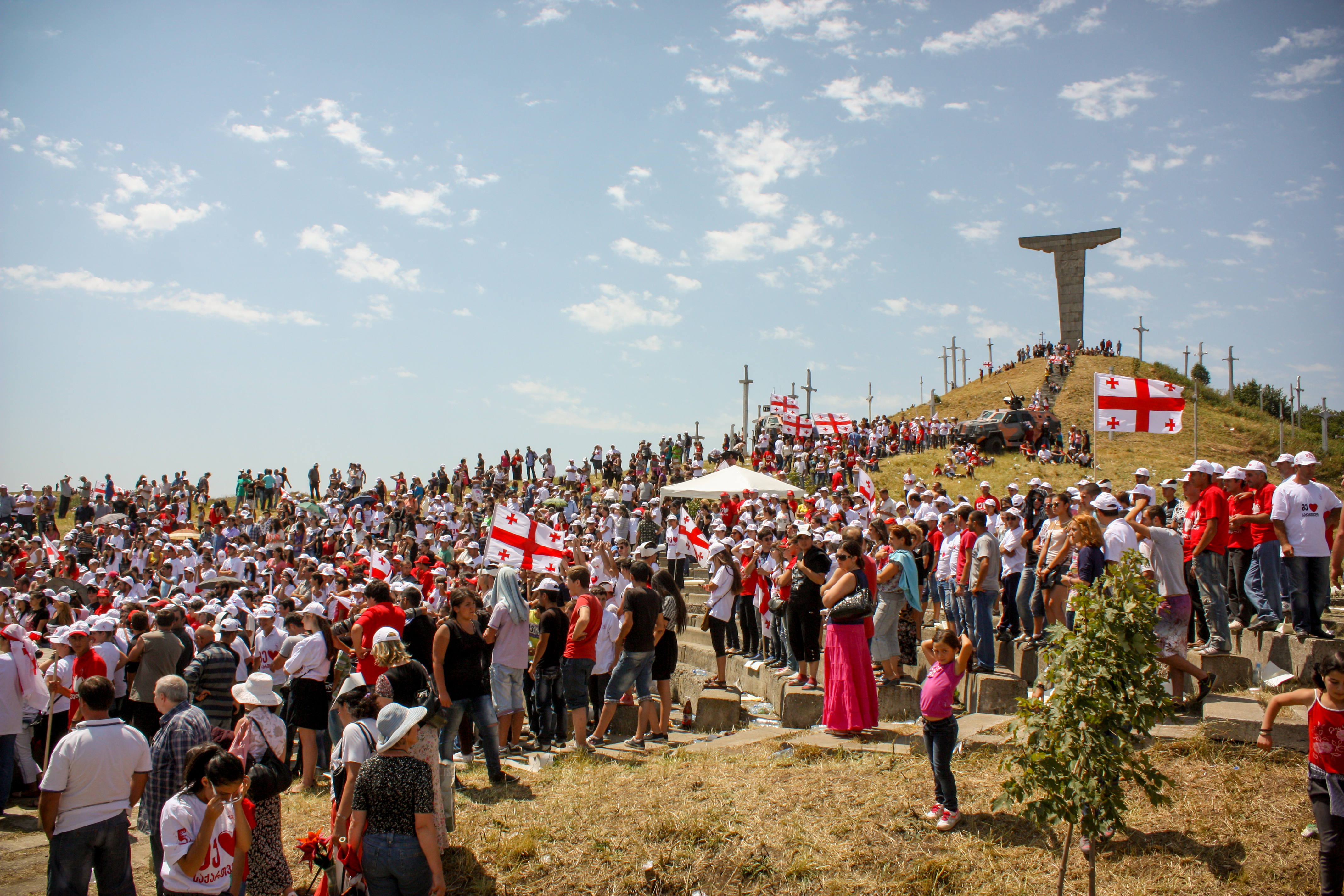 Didgoroba 2012